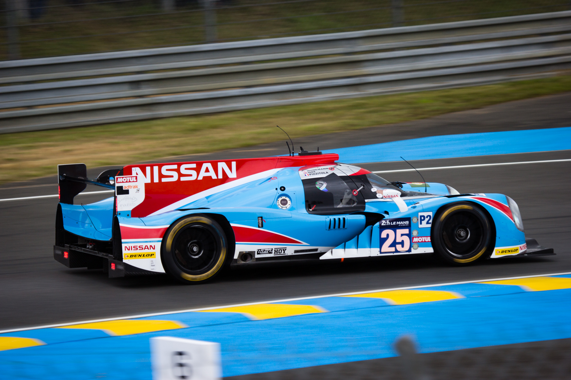 Drivers: Michael Munemann, Christopher Hoy, Andrea Pizzitola